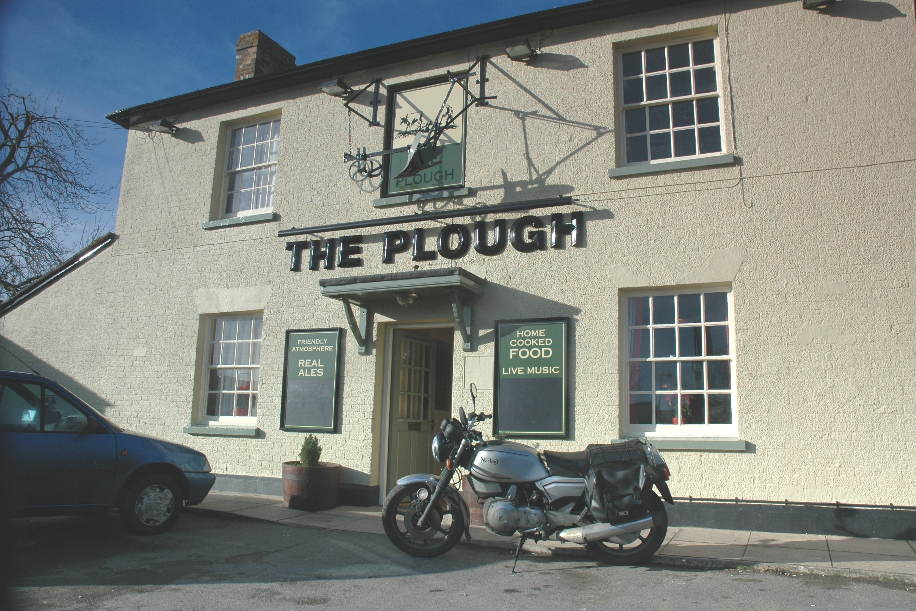 The Plough public house, Lower Arncott, Oxfordshire